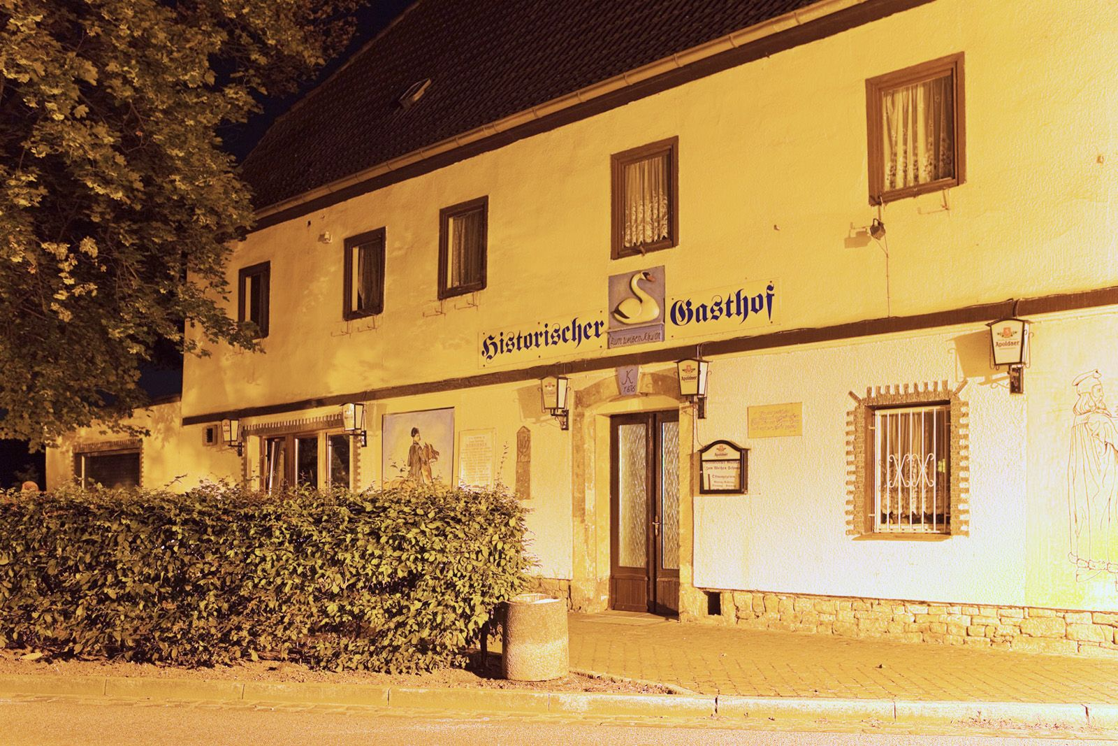 The historic tavern in Rippach, Germany, mentioned in Goethe's "Faust I": "You're doubtless recently from Rippach? Pray, / Did you with Master Hans there chance to sup?" – The picture was first published in b/w in the book "Die Südharzreise" ("The South Harz Journey"), by SuKuLTuR, Berlin, in 2010. The entire book was released under CC by-nc-sa 3.0, all pictures have been re-licensed under CC by-sa, see user page for details. – Picture taken with a Canon EOS 5D Mark II.